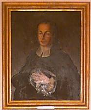 Sámuel Tessedik (1742-1820) Hungarian pedagogue